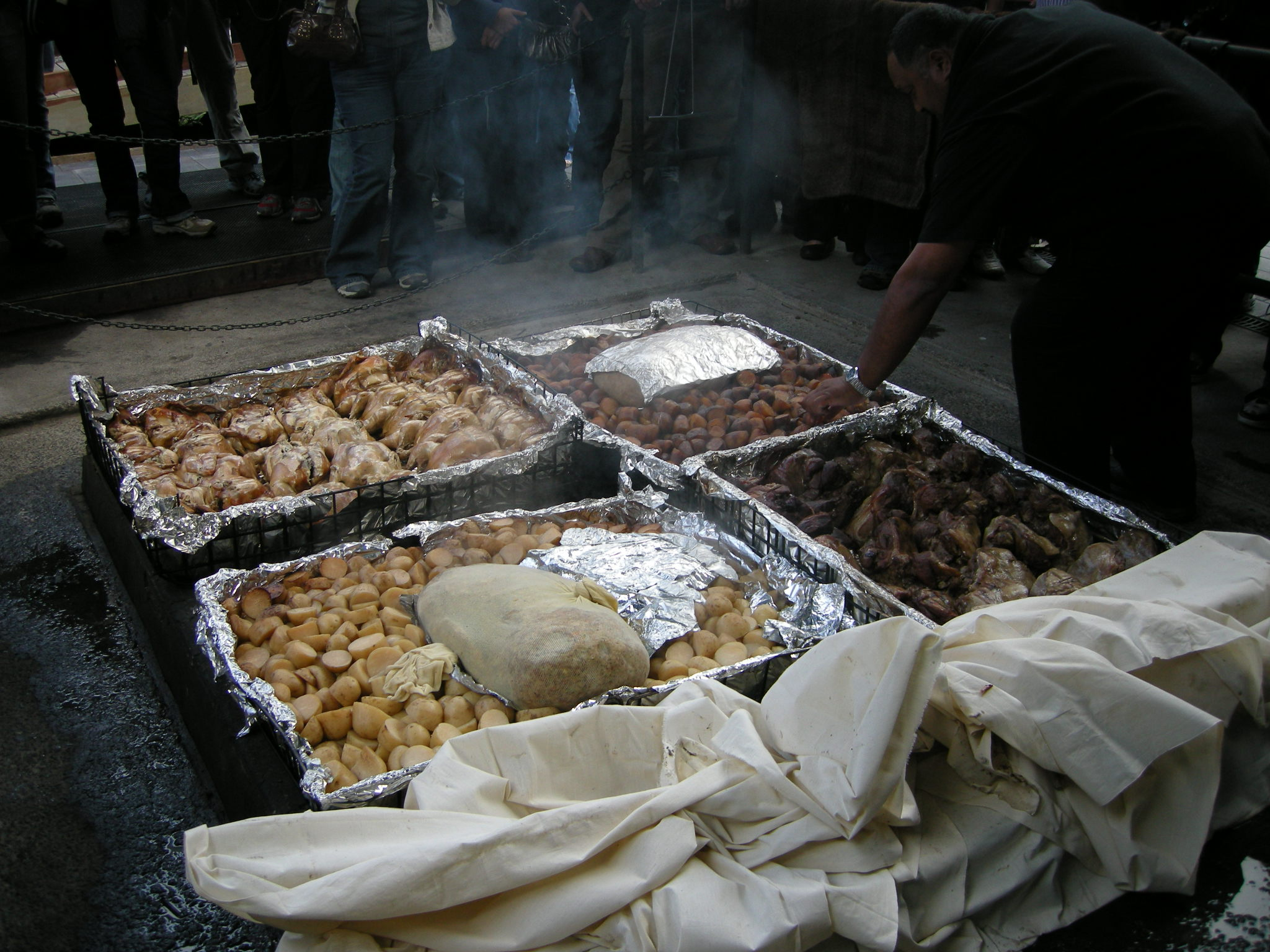 Preparation of a modern hāngi for tourists at Mitai, Rotorua